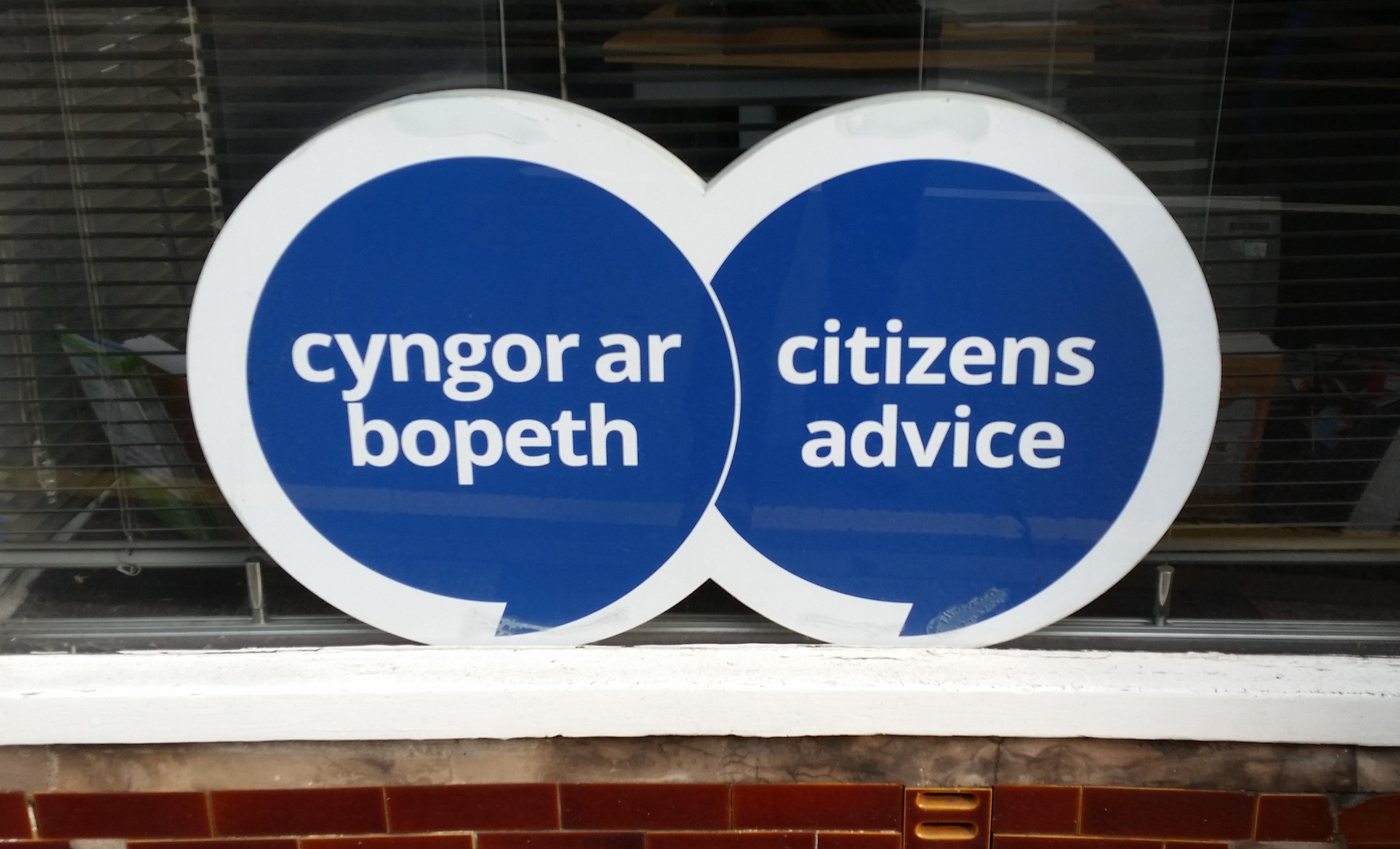 bilingul window sign for Citizens Advice / Cyngor ar Bopeth